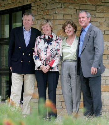 US President George W. Bush and Laura Bush stand with NATO Secretary-General Jaap de Hoop Scheffer and his wife Jeannine de Hoop Scheffer Monday, May 21, 2007, at the Bush Ranch in Crawford, Texas. "The Secretary General of NATO has been a strong advocate of fighting terror, spreading freedom, helping the oppressed and modernizing this important alliance," said the President in his remarks to the press.